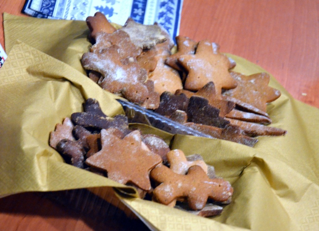 Orthodox Christmas in Poland - Koliada